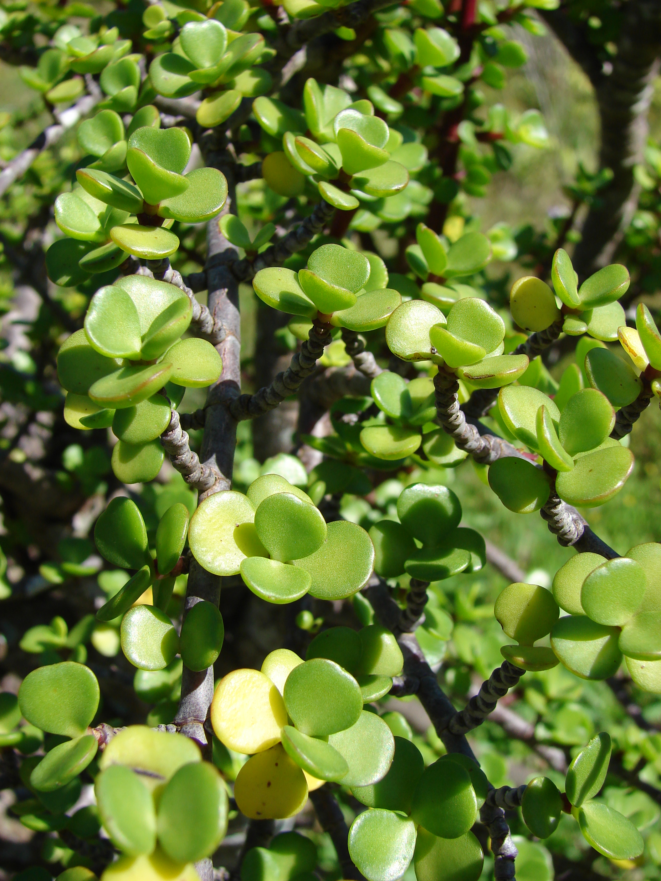 Portulacaria afra (leaves). Location: Maui, Enchanting Floral Gardens of Kula